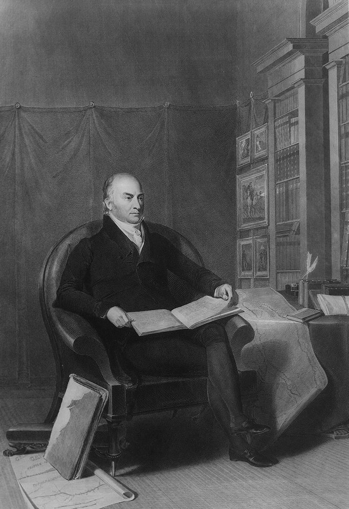 John Quincy Adams former president of the United States of America. painted by T. Sully ; eng. by A.B. Durand. 1826.